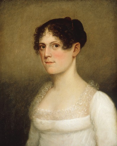 "Nag's Head Portrait," possibly of Theodosia Burr Alston (1783-1813). This painting was found in Nag's Head, North Carolina in 1869, fifty-six years after Theodosia Burr Alston was lost at sea. It had a tradition of having been salvaged from an abandoned ship during the War of 1812. The sitter and artist are both unidentified. SEE: Richard N. Côté, Theodosia Burr Alston: Portrait of a Prodigy. (Corinthian Books, 2002). Pages 307-12.